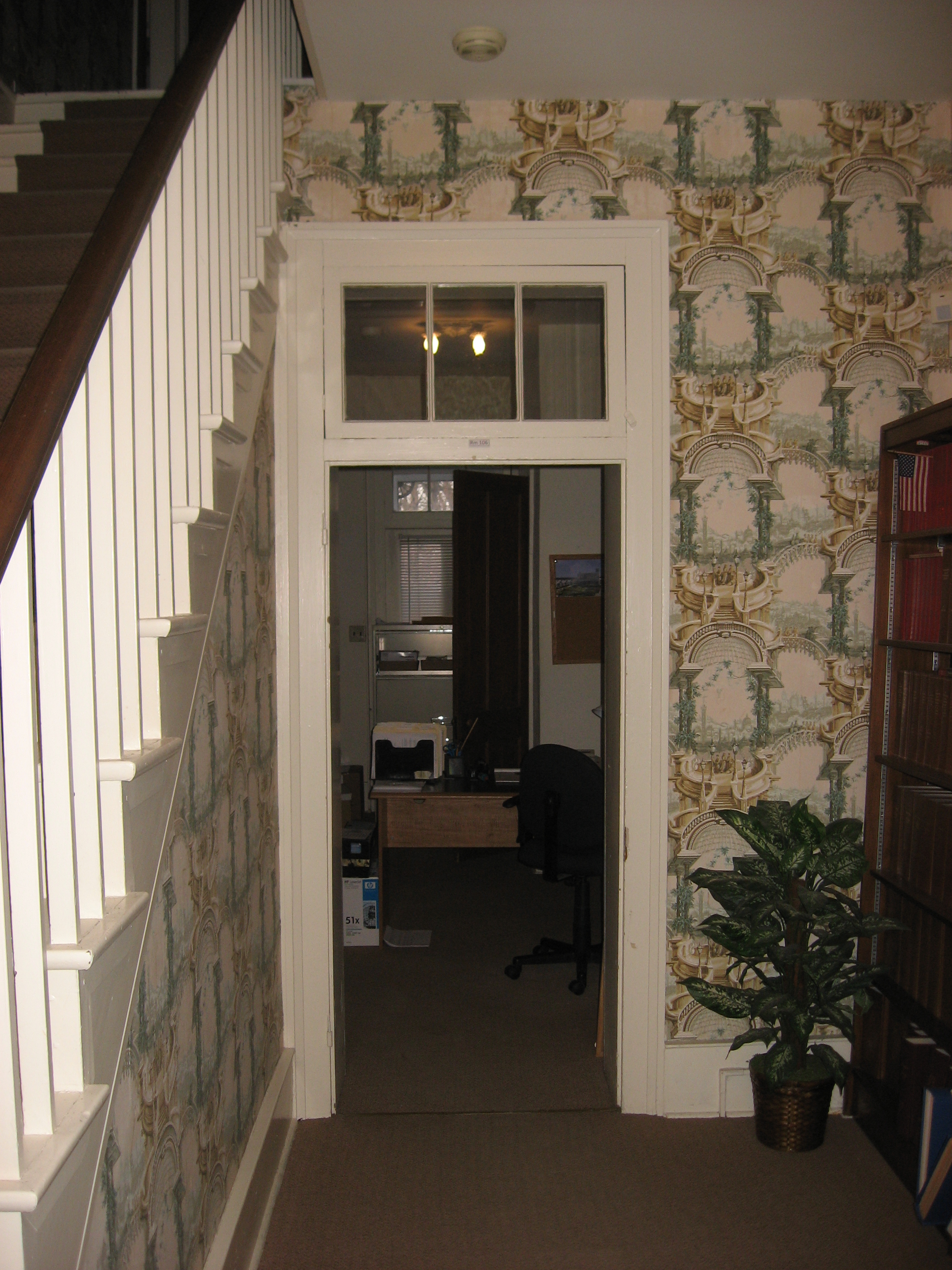 First-floor hallway of the Millen House, located at 112 N. Bryan Avenue on the campus of Indiana University in Bloomington, Indiana, United States. Built circa 1845, it is listed on the National Register of Historic Places.